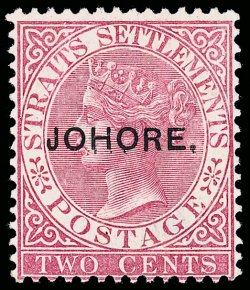 1885 2¢ Johore stamp; stamp of Straits Settlements of pale rose clour, depicting Queen Victoria, overprinted "Johore." SG # 1A (6), Type 6.